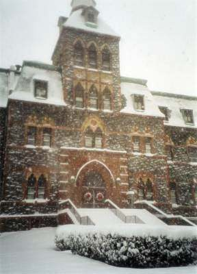 Edwin A. Stevens Building, Hoboken, NJ January 2000